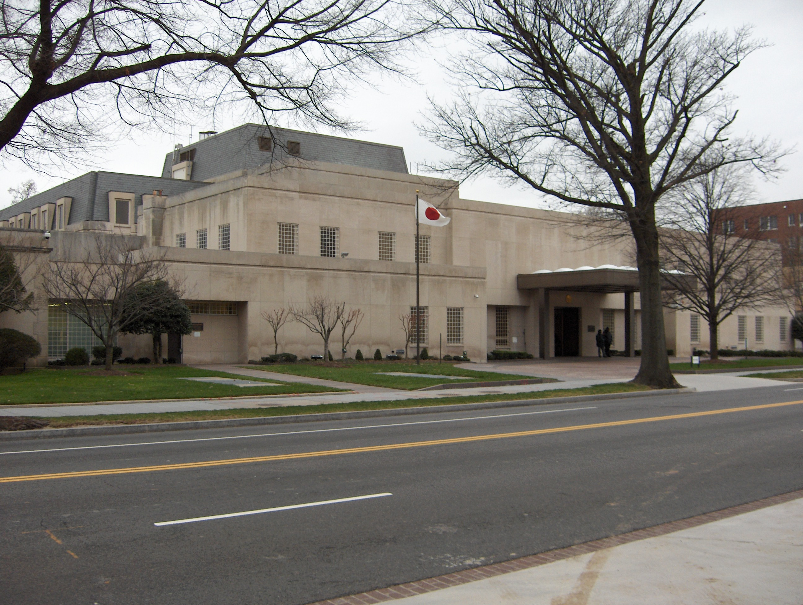 Embassy of Japan in Washington, D.C. A contributing property to the Sheridan-Kalorama Historic District, listed on the National Register of Historic Places in Washington, D.C..